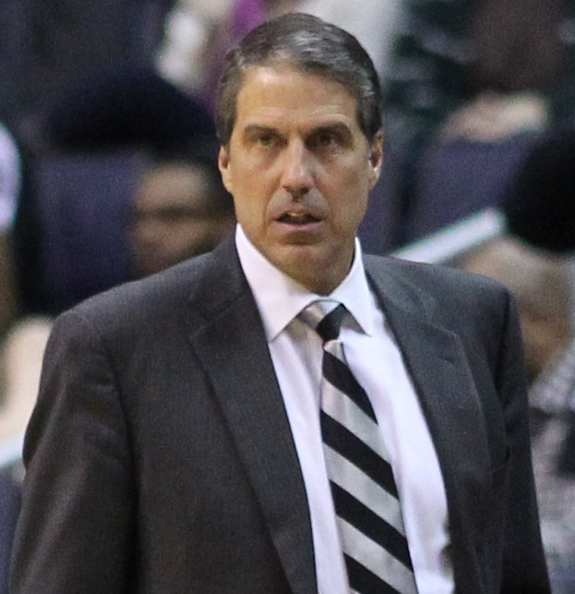 Wizards v/s Warriors 03/02/11 - Wizards assistant coach Randy Wittman